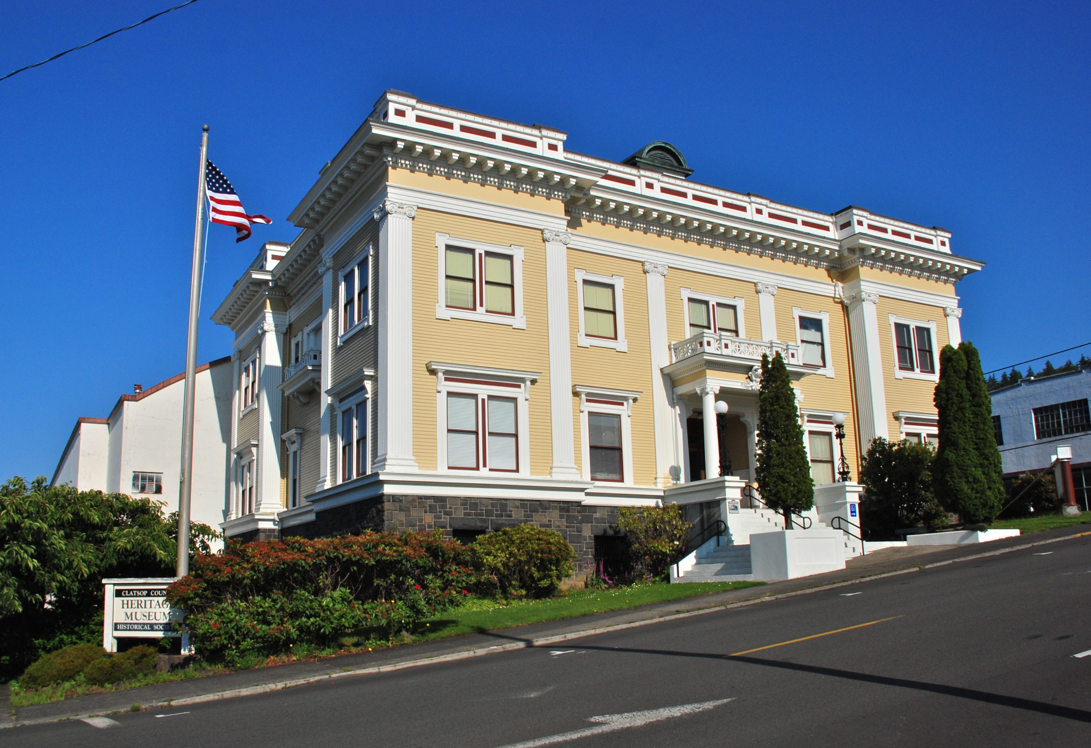 The Clatsop County Historical Society's Heritage Museum, at 16th and Exchange Streets in Astoria, Oregon, occupies a building that served as the Astoria City Hall from 1905 to 1939 and is listed on the U.S. National Register of Historic Places as Astoria City Hall. From 1963 to 1982, the building was the Columbia River Maritime Museum, before that museum moved to a new location on the riverfront.